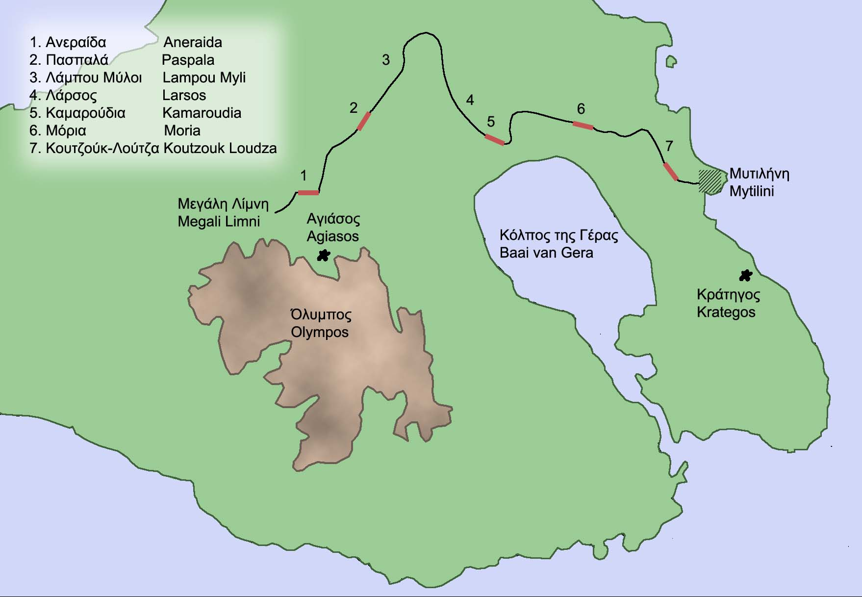 path of the water from Agiassos to Mytilene